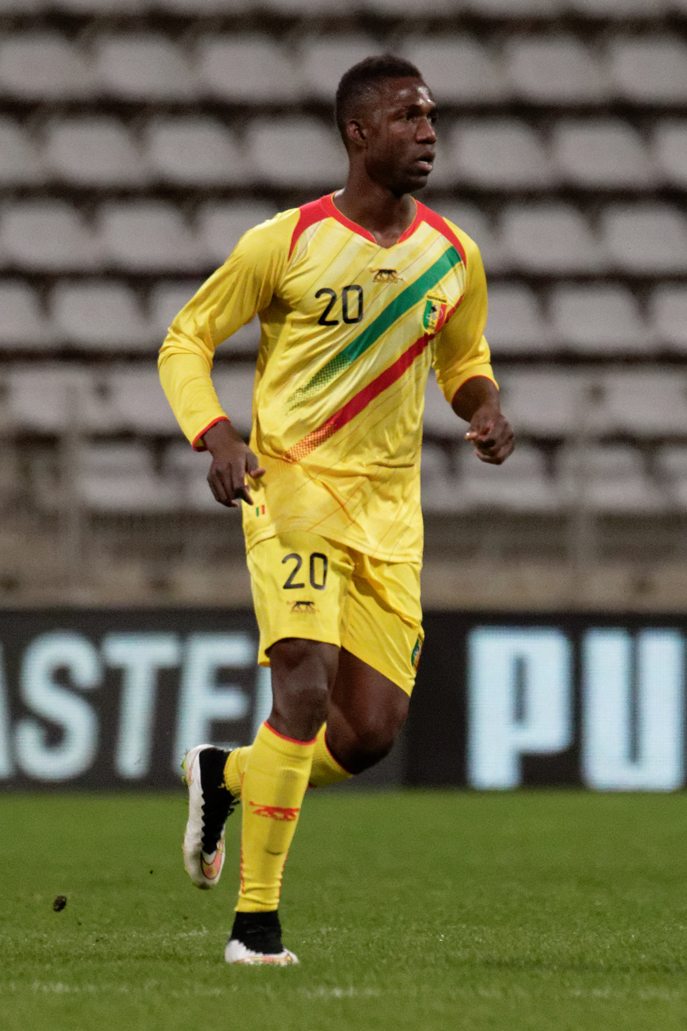 Mali vs Ghana, exhibition game at Paris, 31st March 2015.